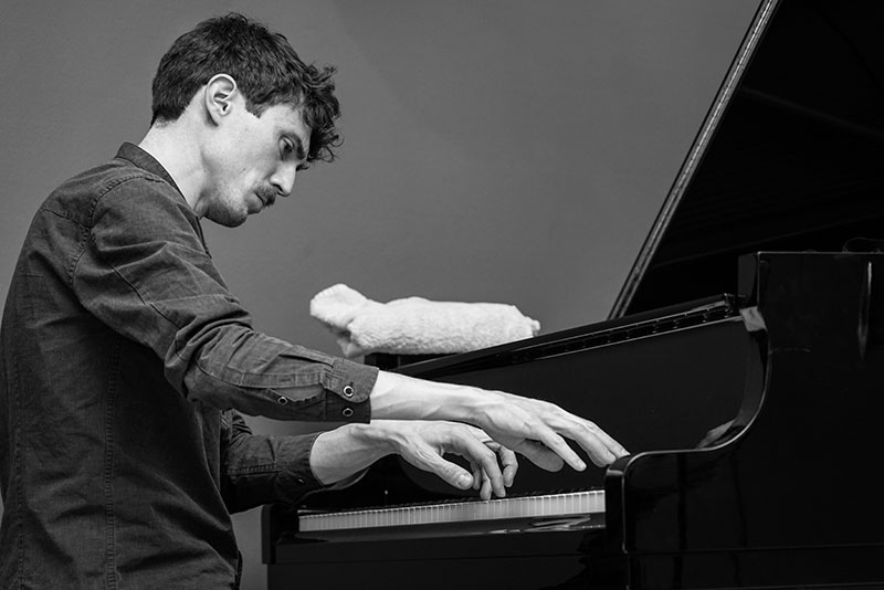 Emanuele Maniscalco in Aarhus (Dnemark) 2019. Playing with Francesco Bigoni (s) and Mark Solborg (g).